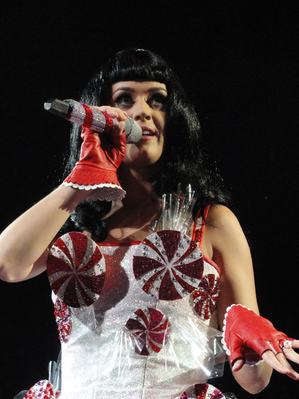 Katy Perry performing live in Seattle, WA in July 2011